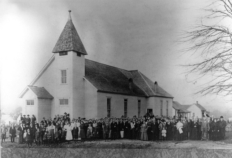 The eighth General Assembly meeting in January 1913 at the North Cleveland Church of God.